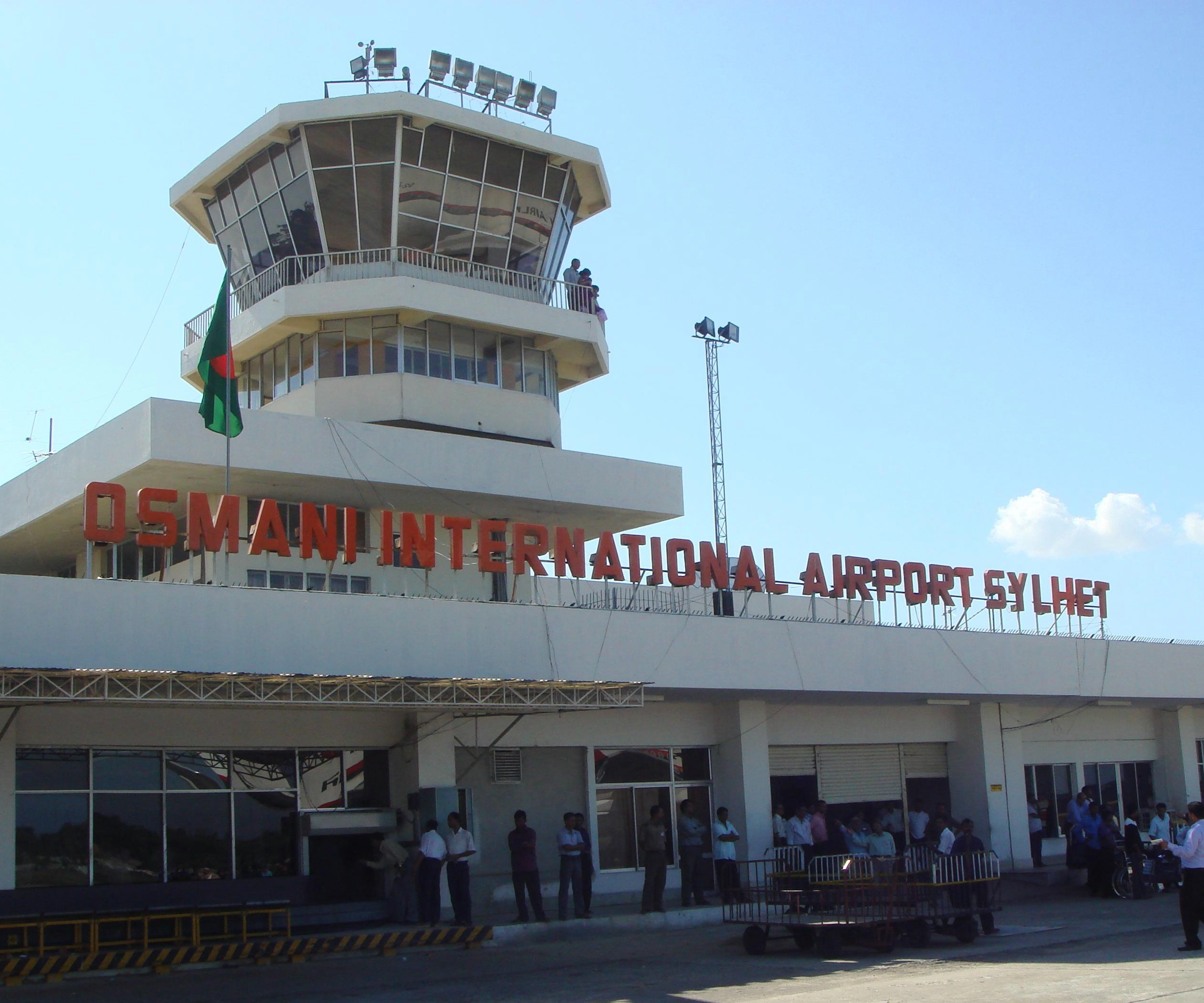 The old building of Osmani International Airport.